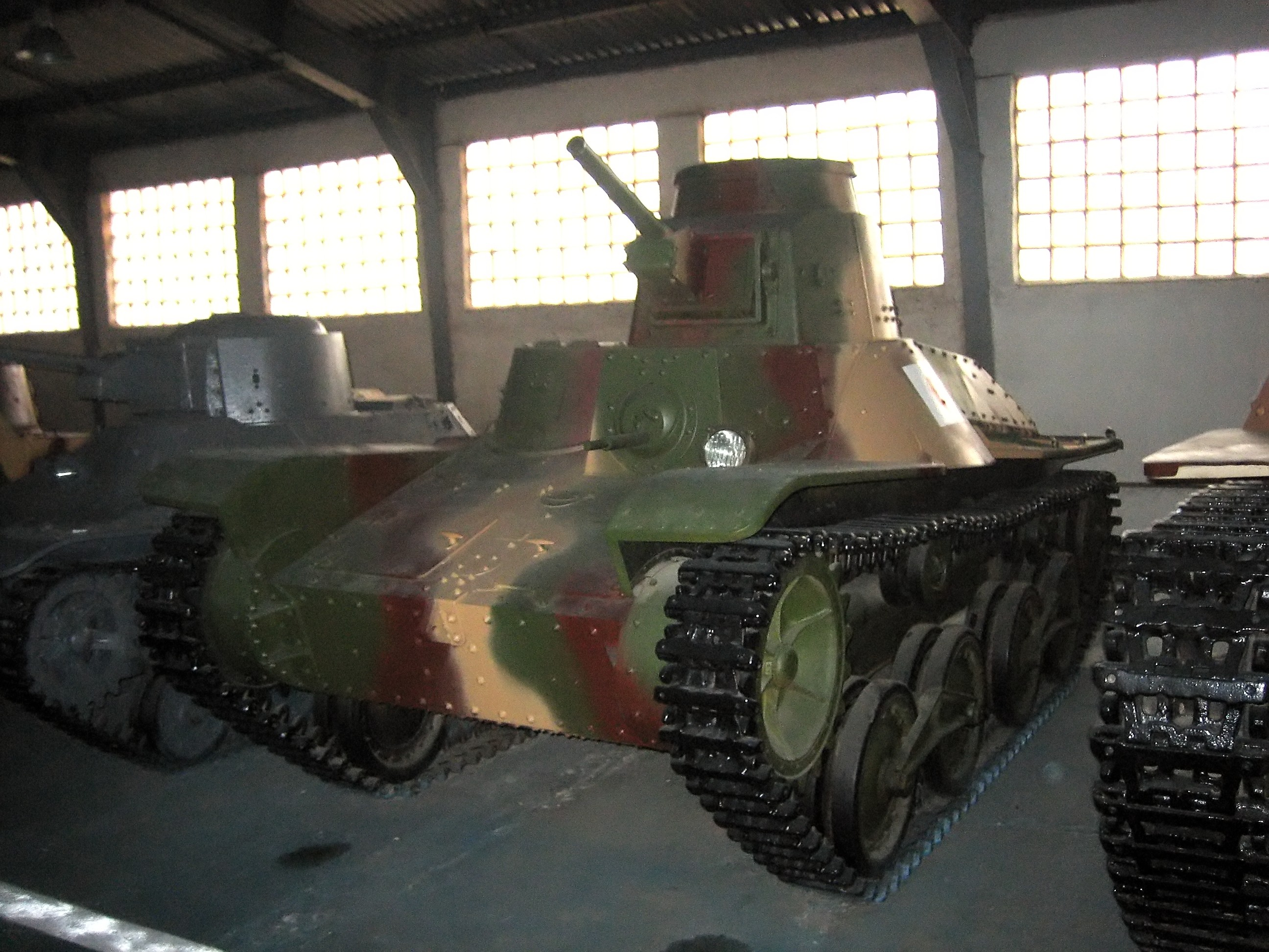 Japan light infantry tank Type 95 Ha-Go, displayed in Kubinka Tank Museum. Photo taken on December 9, 2006. Source: Photo by me, User:Saiga20K.